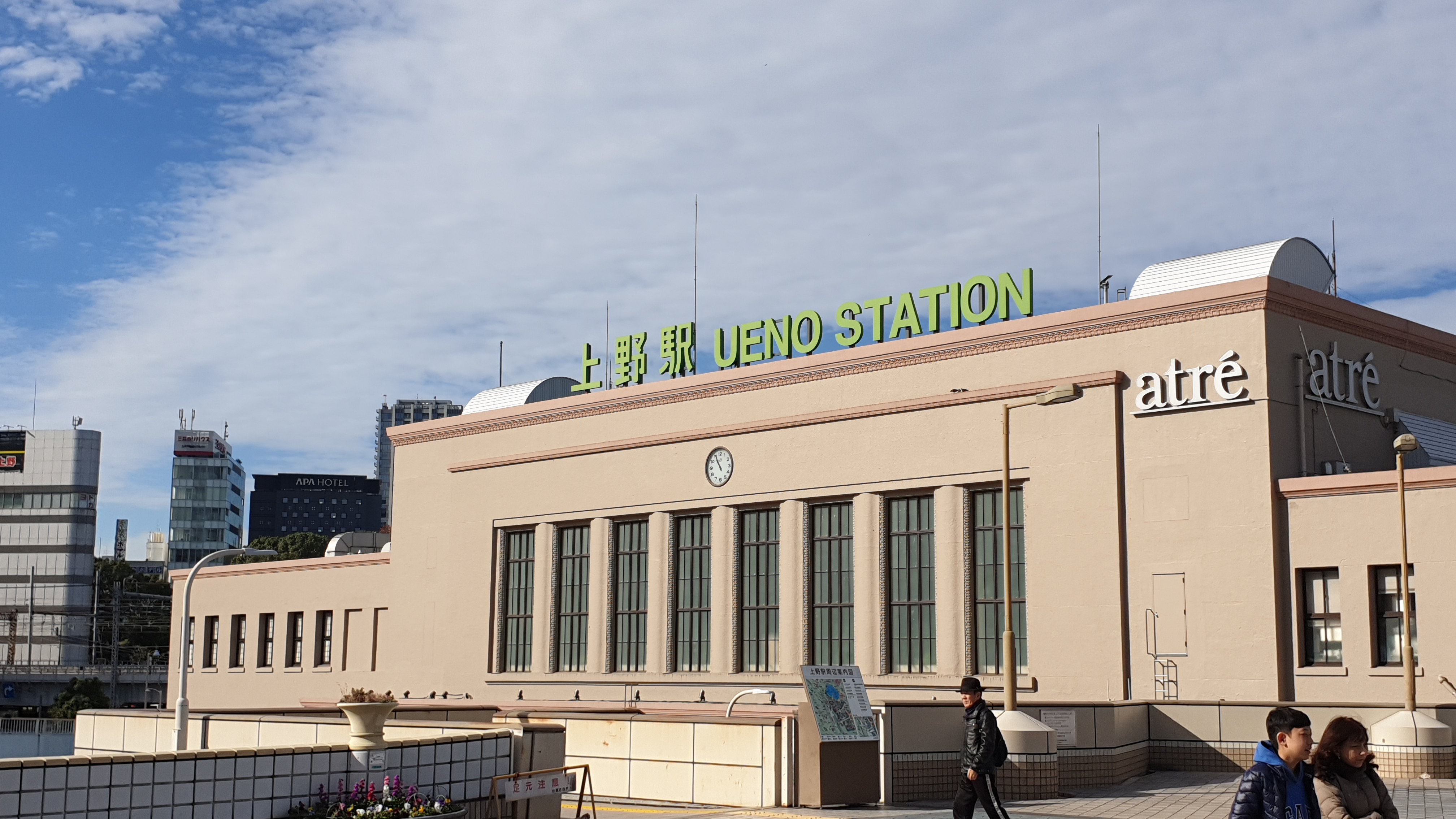 Ueno Station - Dec 2019